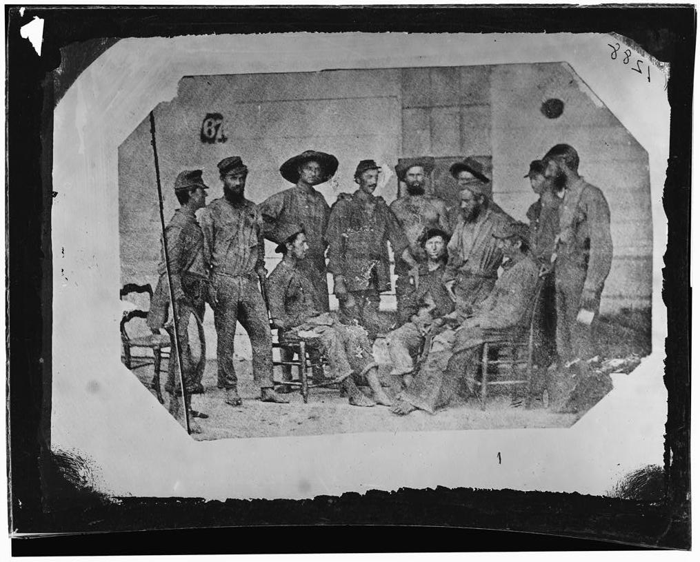 Non-commissioned officers, 19th Iowa Infantry, exchanged prisoners from Camp Ford, Texas. Photographed at New Orleans on their arrival.